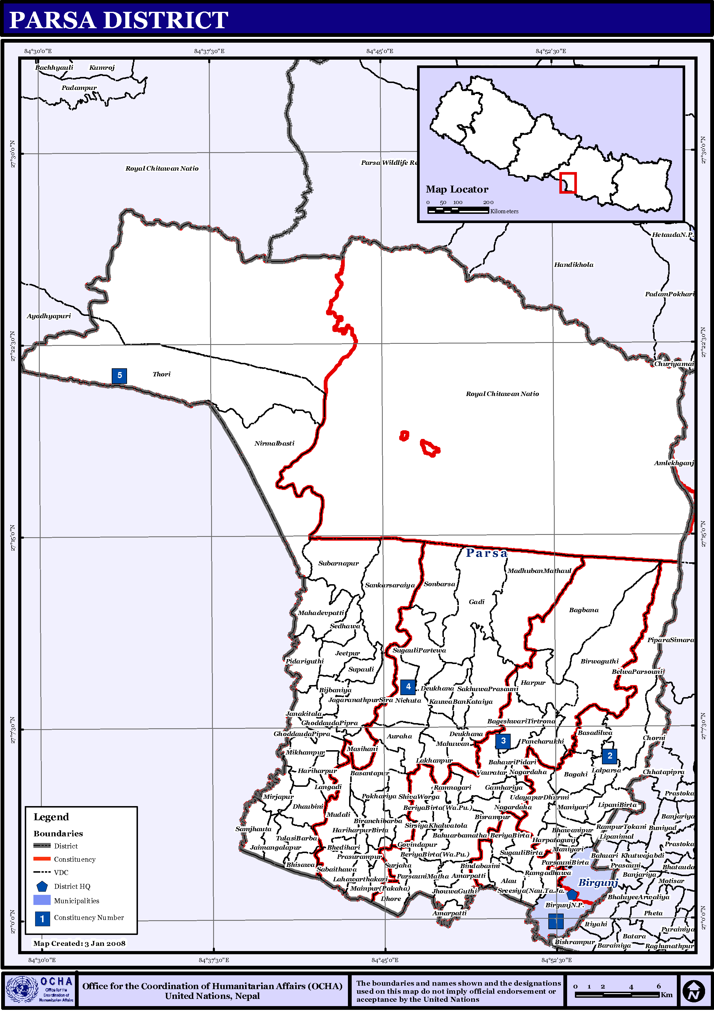 Map displaying Village Development Committees in Parsa District, Nepal